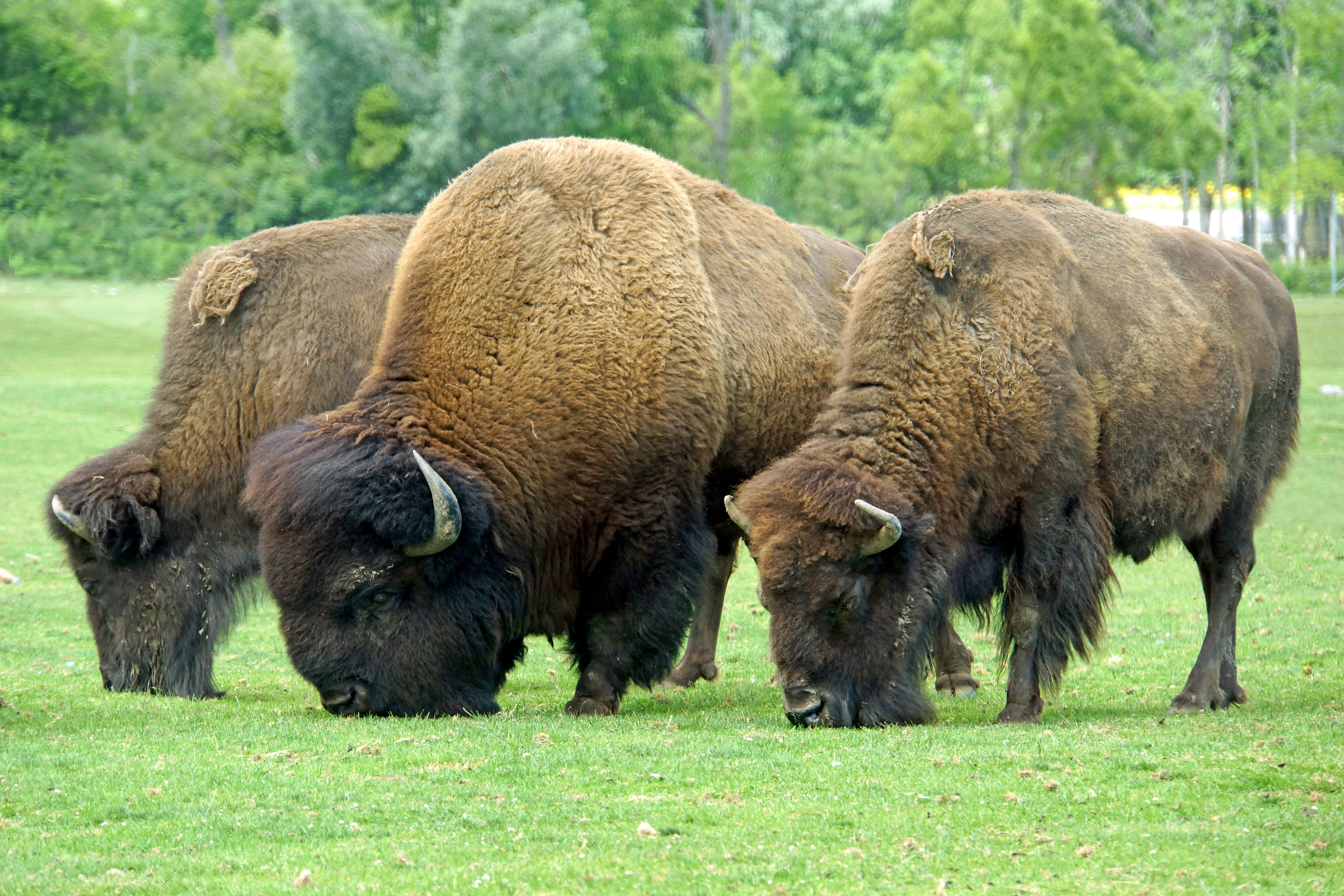 PLEASE, NO invitations or self promotions, THEY WILL BE DELETED. My photos are FREE to use, just give me credit and it would be nice if you let me know, thanks. The American bison, found only in North America. Although sometimes referred to historically as a "buffalo".